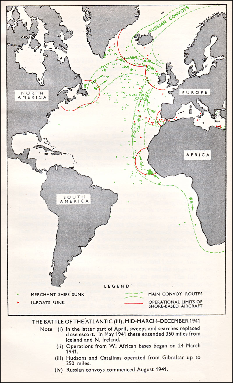 THE BATTLE OF THE ATLANTIC (III), MID-MARCH–DECEMBER 1941